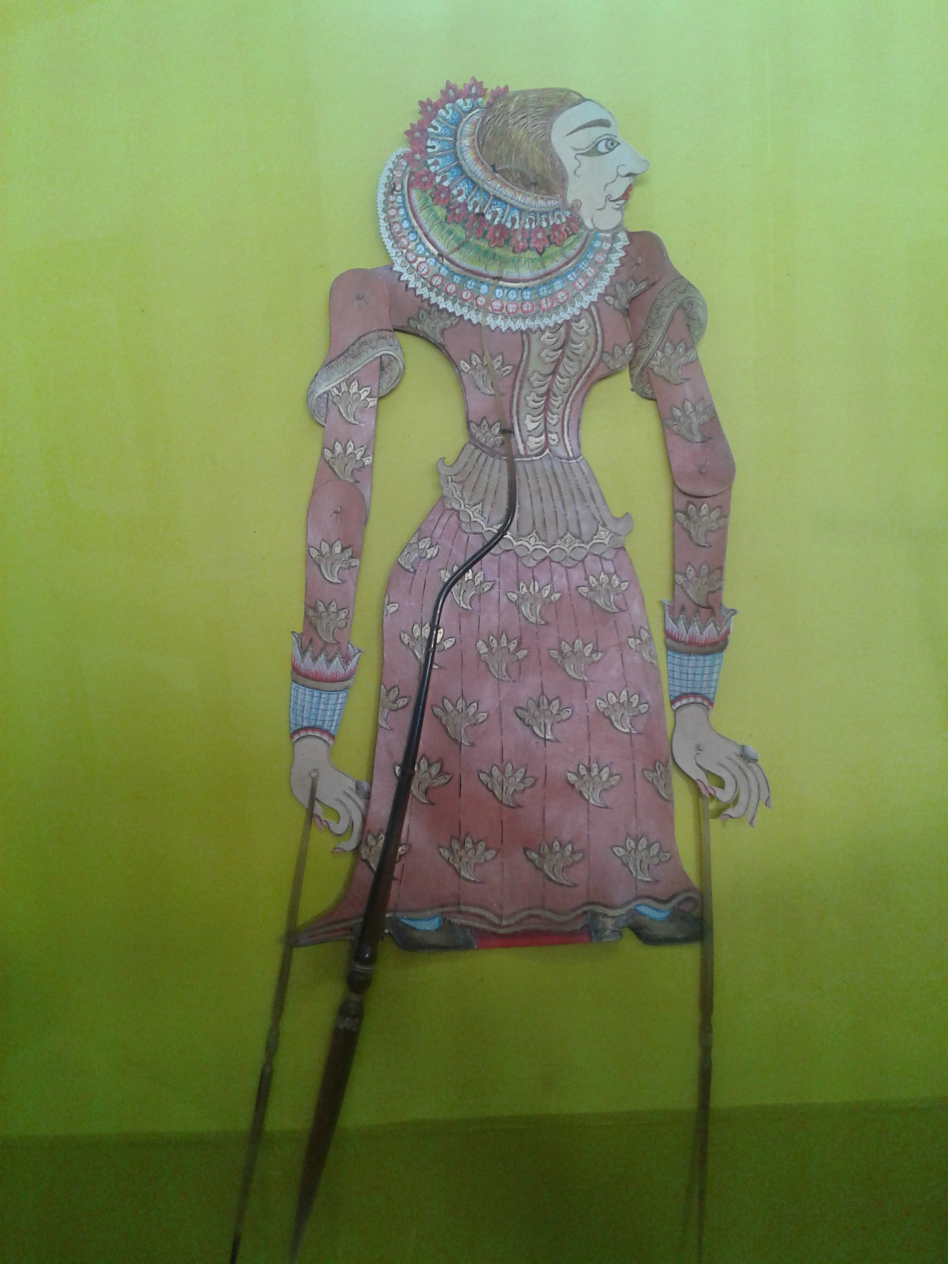 Wayang Dupara - Mdm. Jan Pieterszoon Coen. Collection of Taman Mini Indonesia Indah.